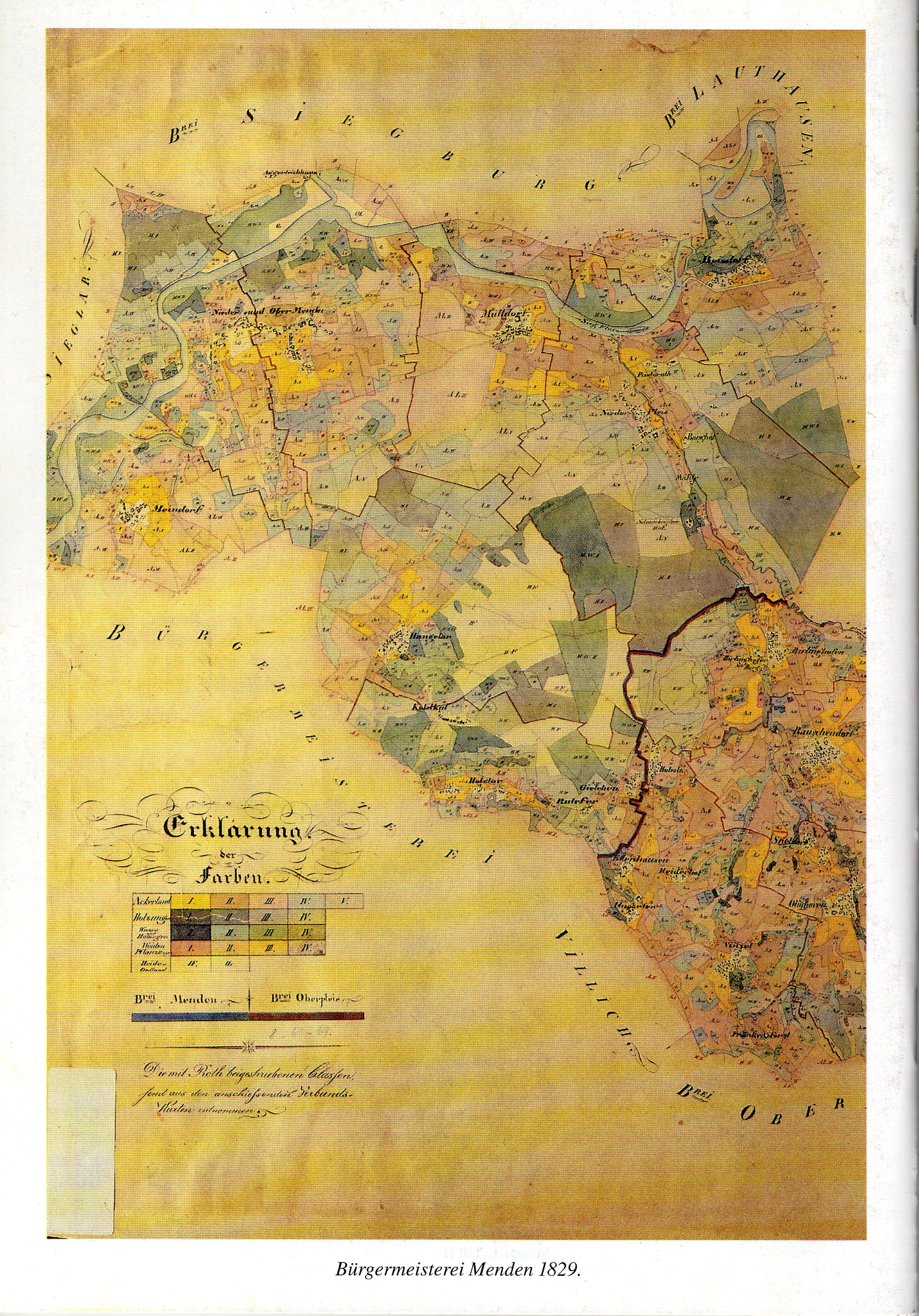 Map of Bürgermeisterei Menden in Rhineland, 1829.